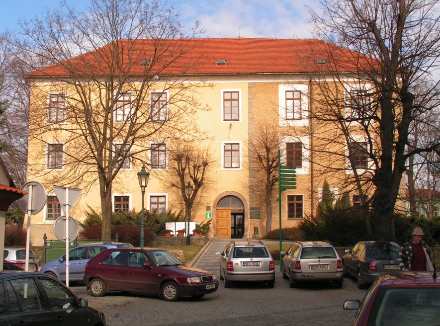 Castle-Ernestinum in city of Příbram.